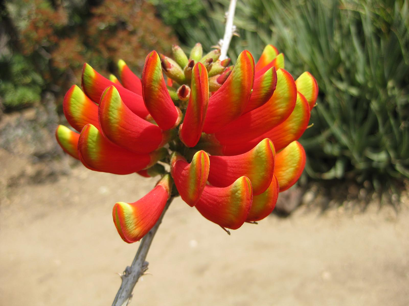 Photographed at Huntington Gardens (Los Angeles) in April